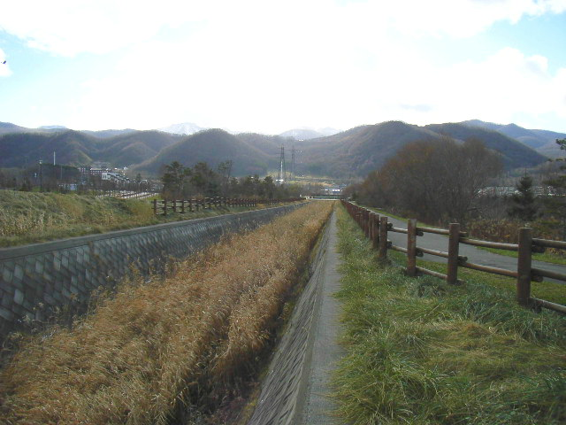 Kiraichi River, Sapporo, Japan.